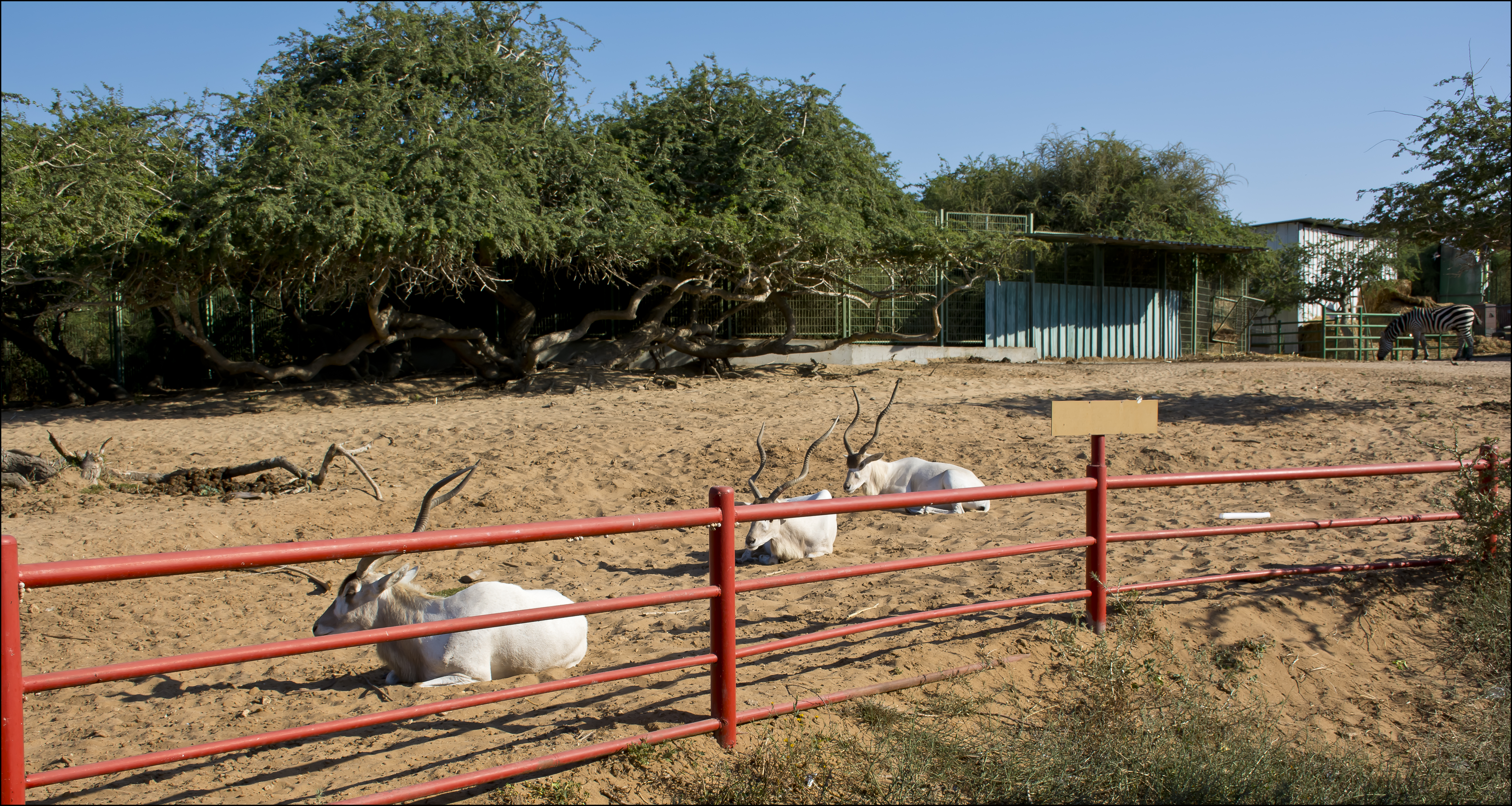 Addax at Lachish Park, Ashdod, Israel